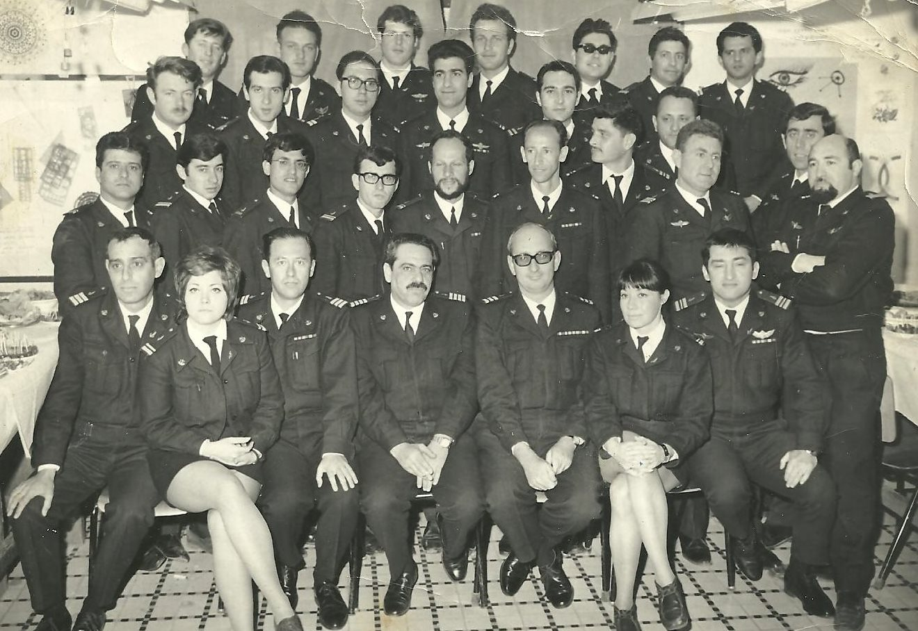 Officer staff of Naval intelligence. Winter 1971. Second row from the bottom, second from the left: Lt. Meir Toledano